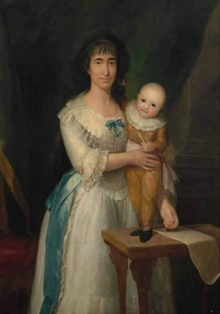 Portrait of Countess of Altamira and Her Son Vicente Isabel